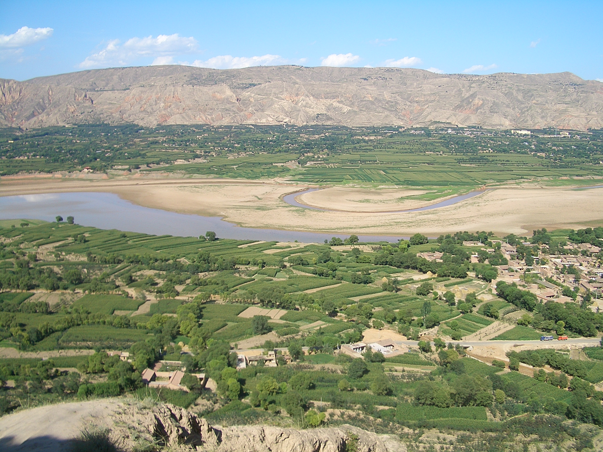 Fields in Daxia He River Valley, in the northeastern part of Linxia County (probably, Xihe Township). The river forms as bay as it falls into Liujiaxia Reservoir on the left. The other (eastern) side of the river, and the hills in the background, are already in Dongxiang Autonomous County